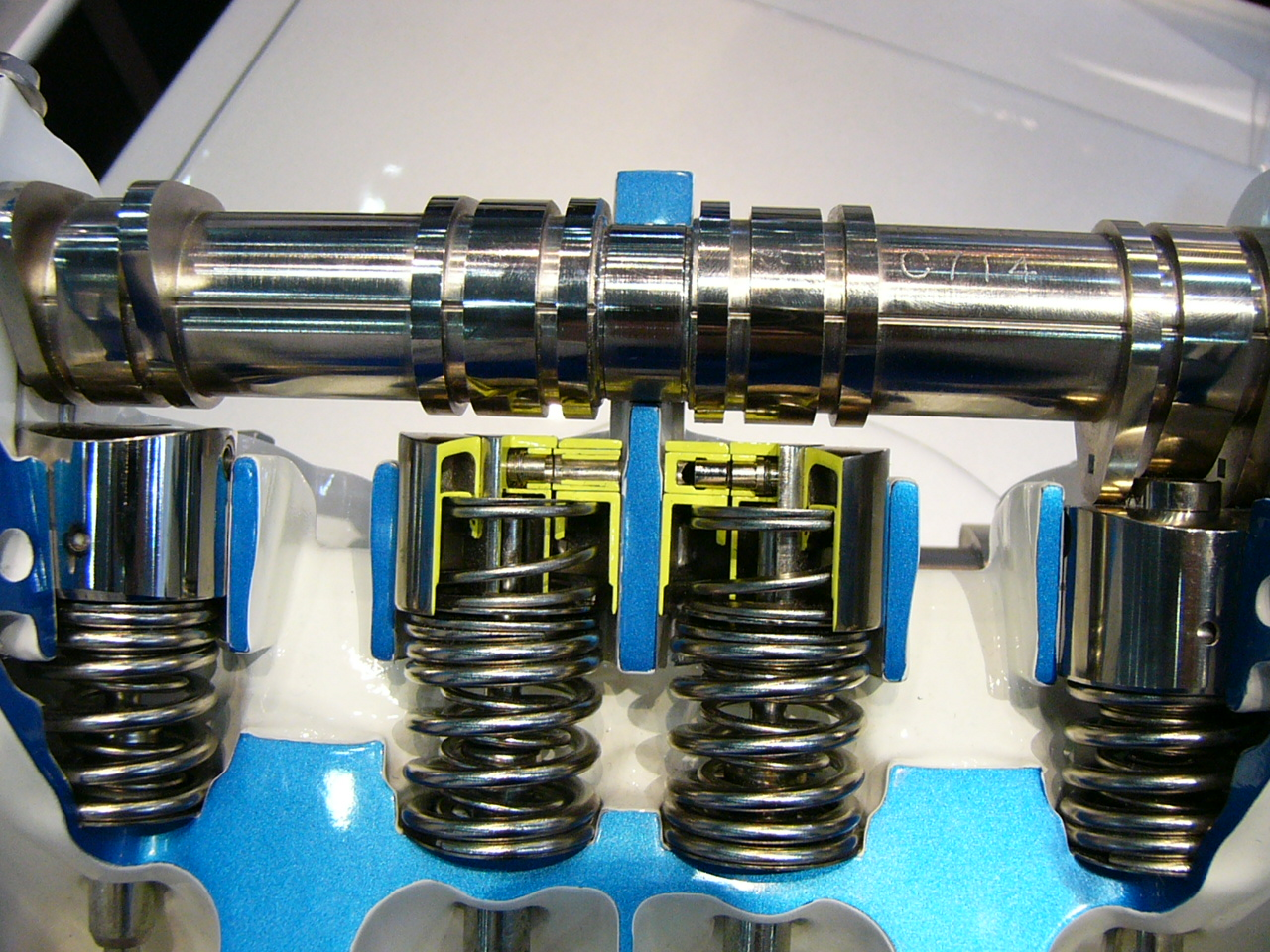 Switching tappet for SUBARU EZ30 engine by INA (Schaeffler group) at Tokyo Motor Show 2005.